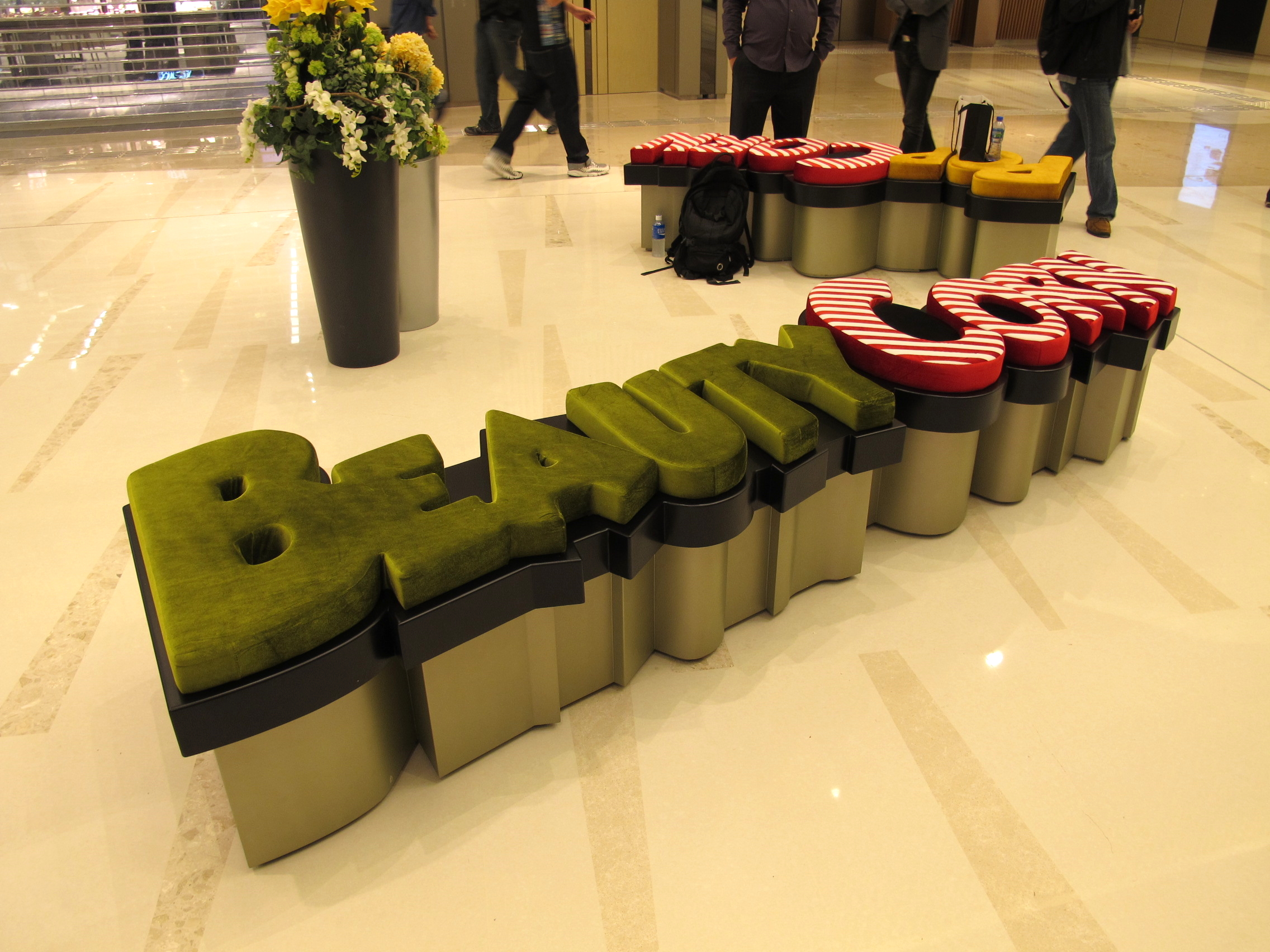 PopCorn Seats